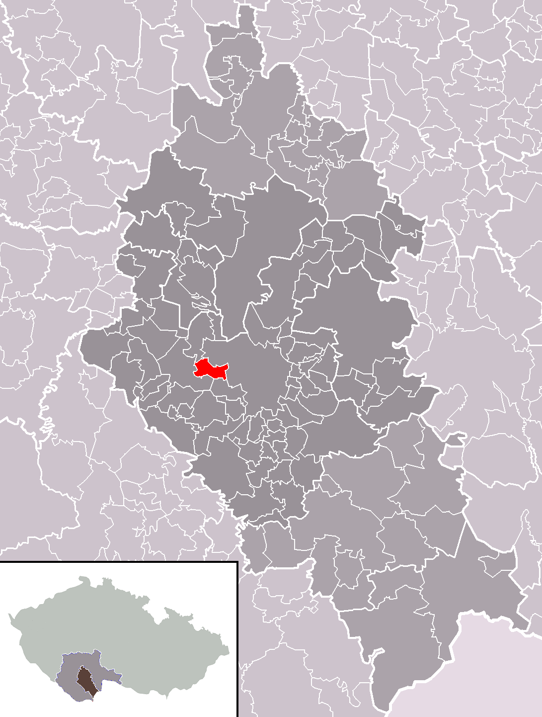 Location of Branišov municipality within České Budějovice District and administrative area of České Budějovice as a Municipality with Extended Competence.